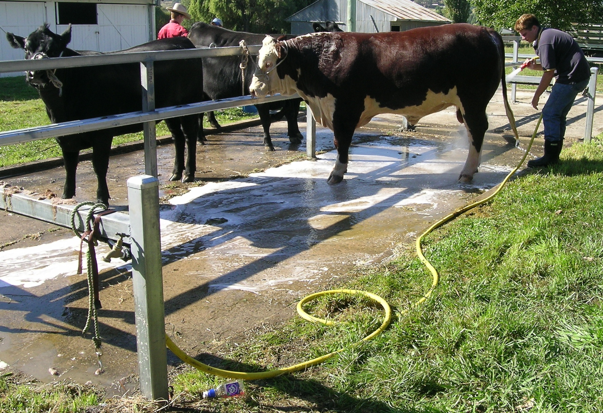 Preparing stud beef cattle for an agricultural show judging, Walcha, NSW